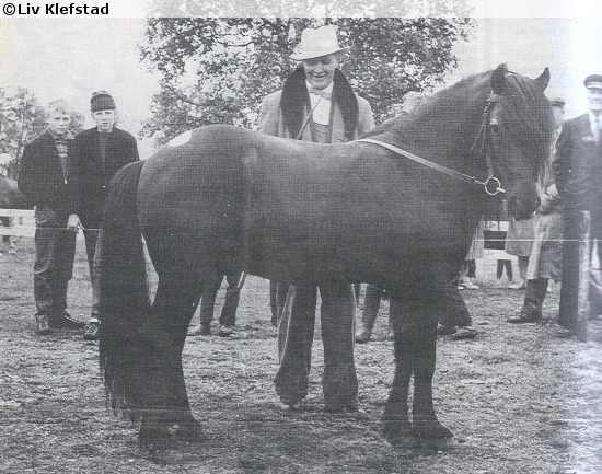 Lyngs/Norlandshest stallion Nordlandssvarten 11 NH at a show.